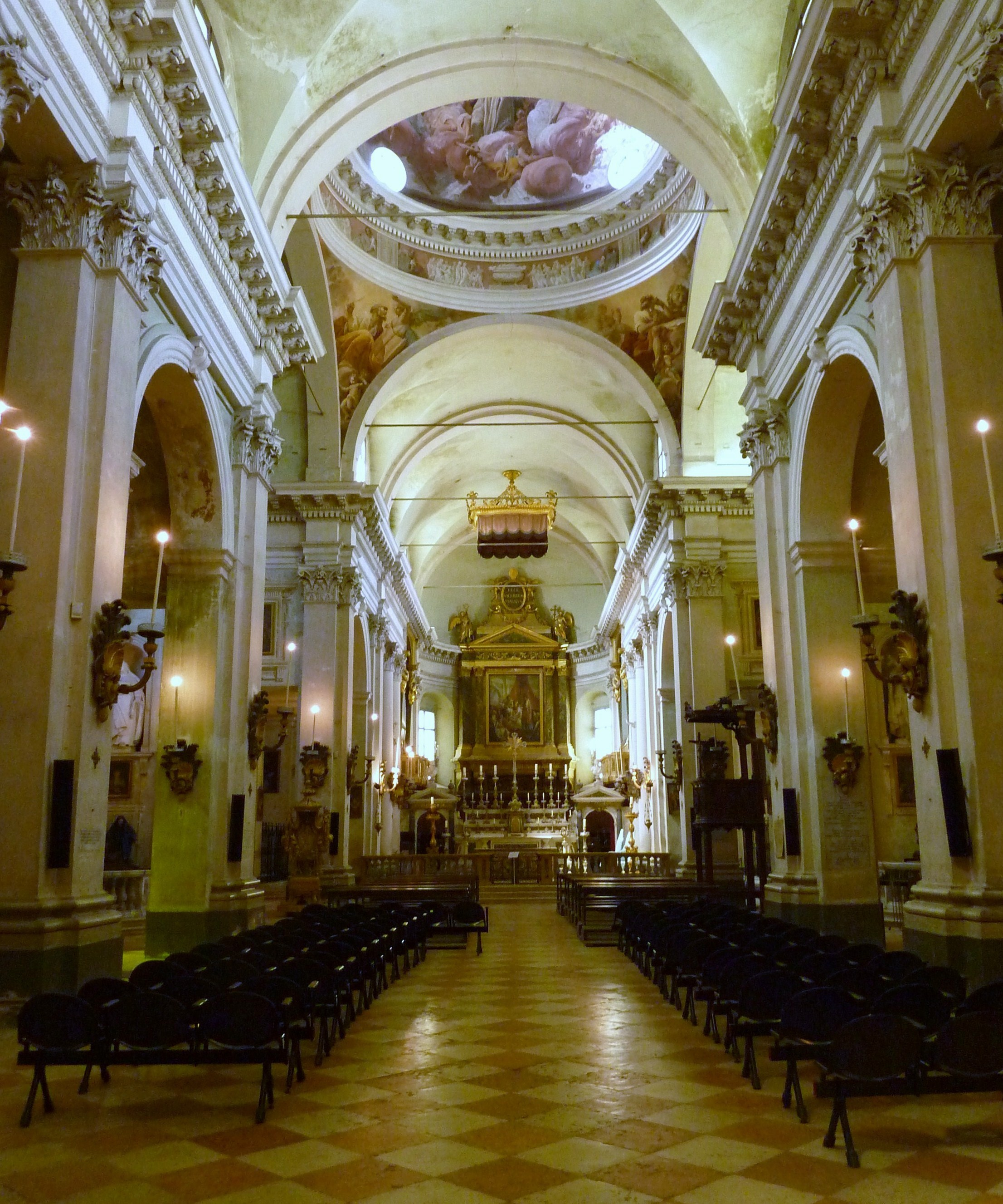 The interior of the Cappella Ducale di San Liborio (Colorno, Italy).